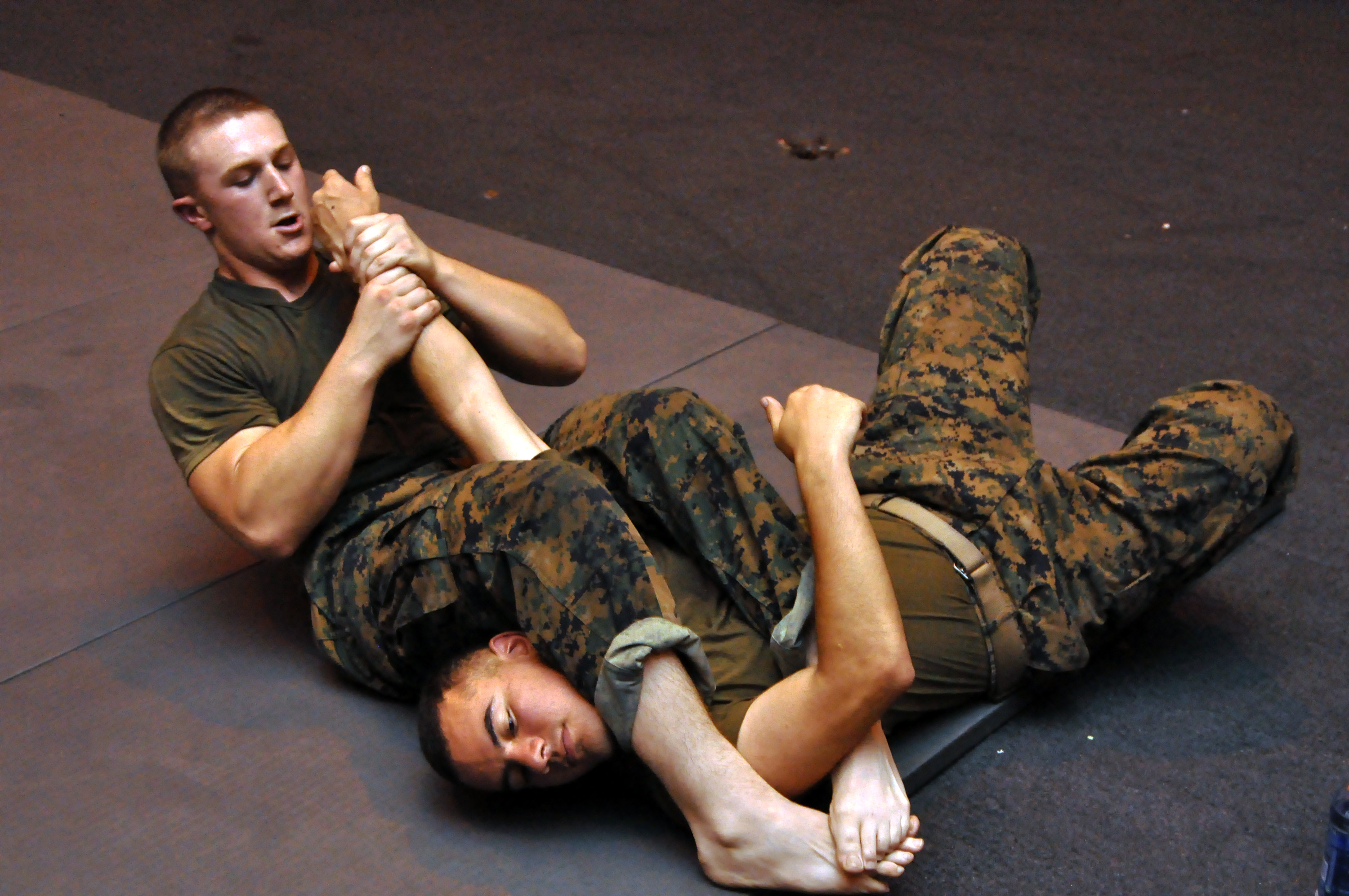 U.S. Marine Corps Lance Cpl. Ryan Whitted, left, applies an arm bar to his grappling partner during Marine Corps Martial Arts Program (MCMAP) training aboard the aircraft carrier USS Ronald Reagan (CVN 76) in the Pacific Ocean July 16, 2010. Marines from the “Death Rattlers” of Marine Fighter Attack Squadron 323 are aboard Reagan as part of Carrier Air Wing 14. The ship is participating in Rim of the Pacific 2010, the world's largest multinational maritime exercise. (DoD photo by Mass Communication Specialist 3rd Class Stephen M. Votaw, U.S. Navy/Released)